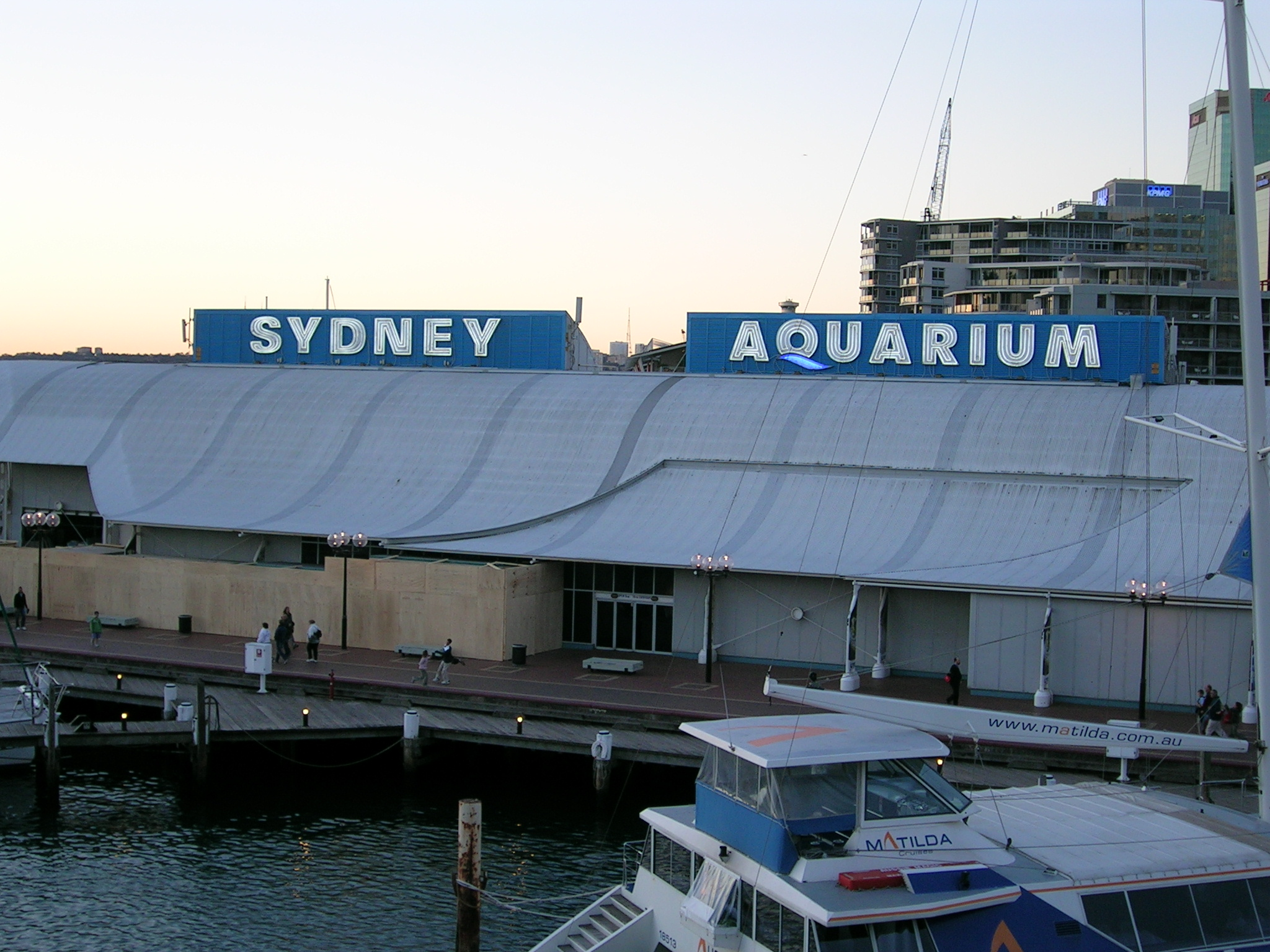 Sydney aquarium, by zcasper, found on Flickr